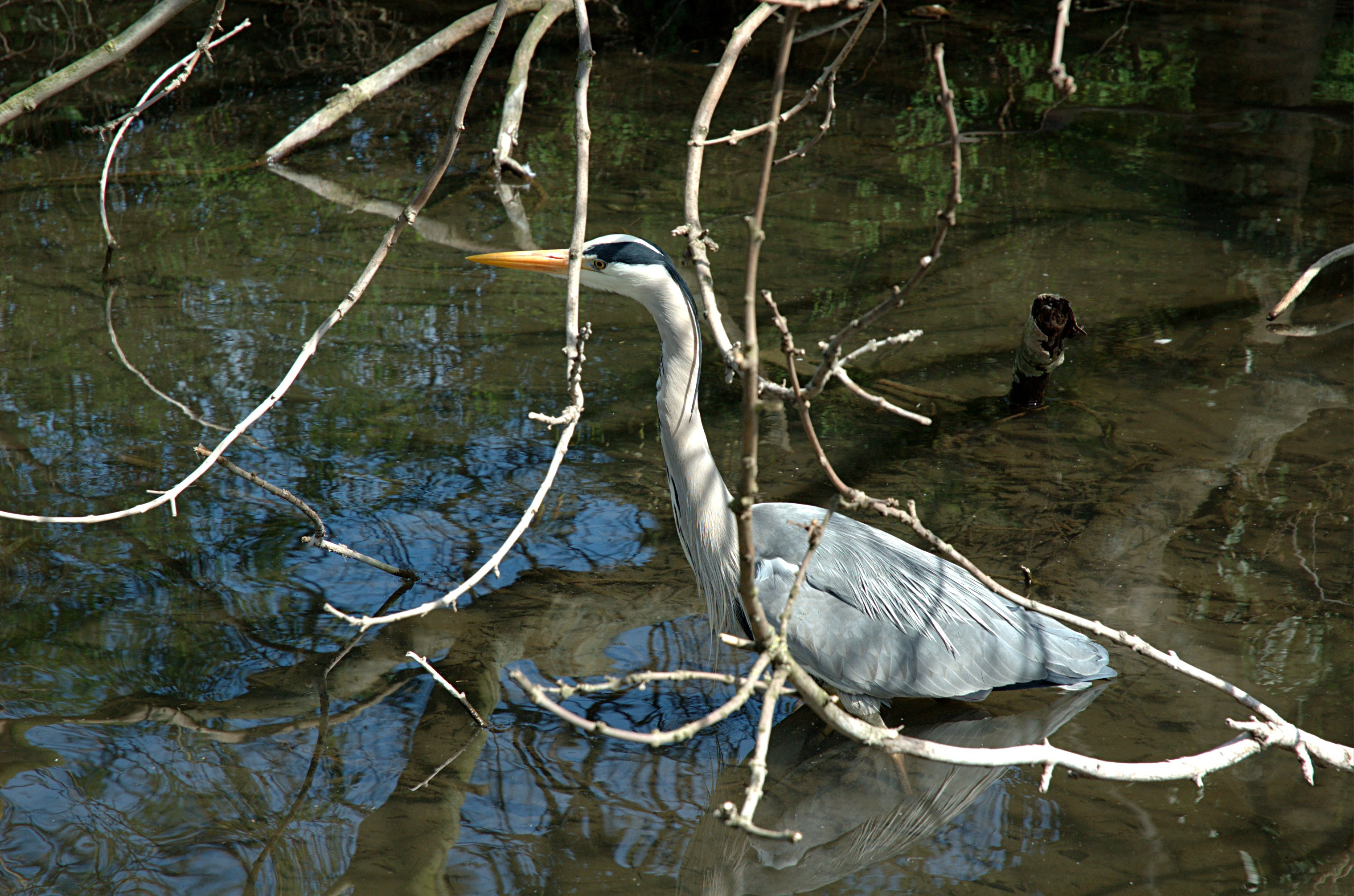 Ardea cinerea (Grey Heron). Verulamium Park, St Albans, Hertfordshire, England.